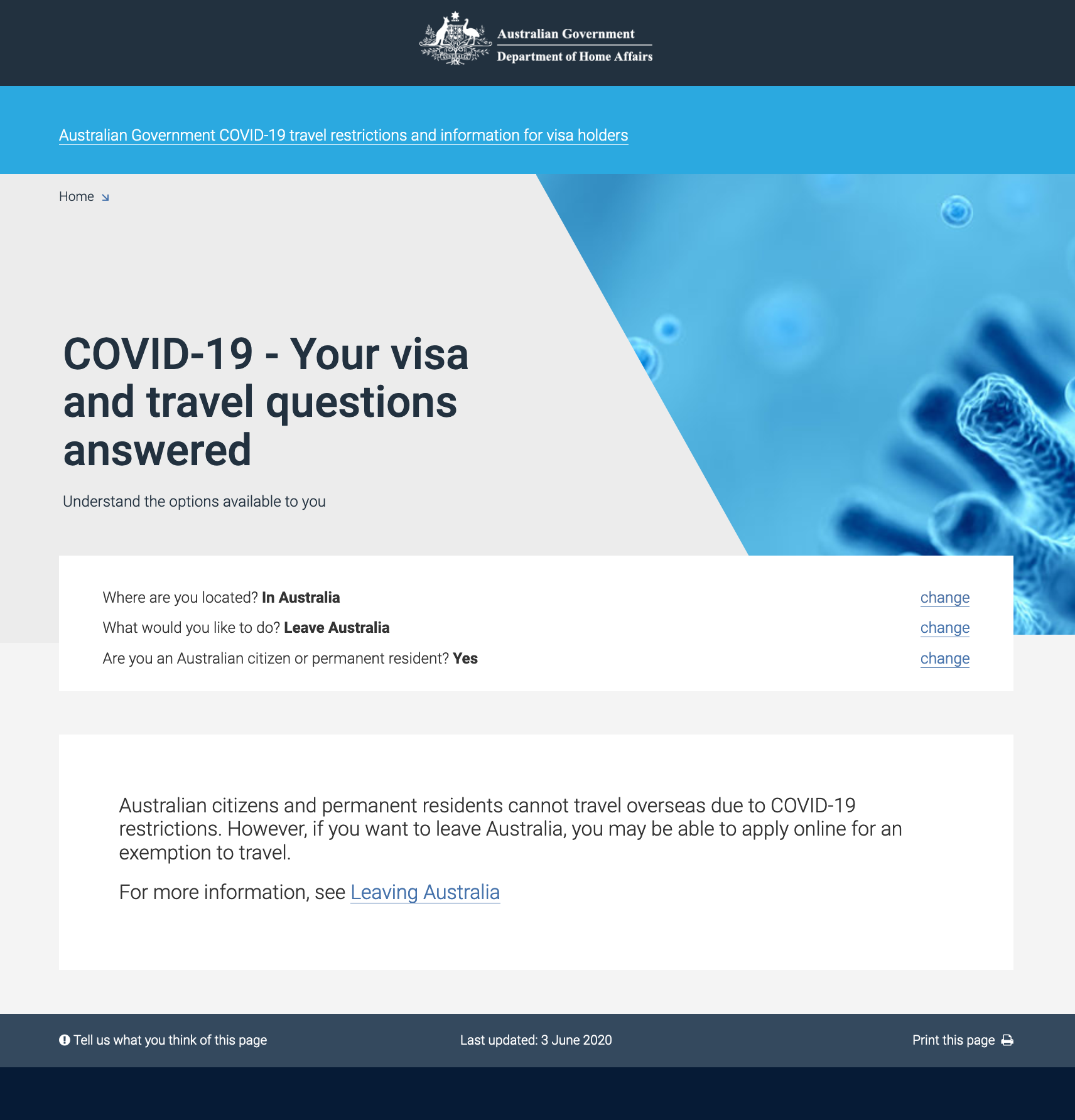 Screenshot of the Australian Government Department of Home Affairs page stating travel restrictions for Australian citizens and permanent residents.